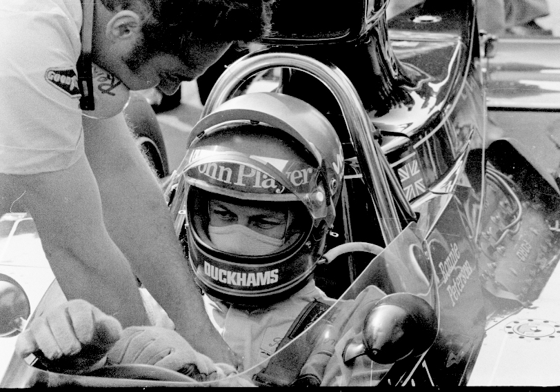 Ronnie Peterson, Grand Prix driver